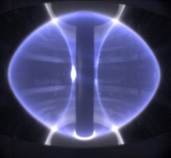 A typical plasma in the MAST spherical tokamak machine at the Culham Centre for Fusion Energy in the UK. The image shows the main plasma as the sphere in the center of the image. The elongations at the top and bottom are extensions to the plasma where it flows to ring-shaped "diverters" at the top and bottom of the reactor. Diverters help shape the plasma, as well as clear it of heavier impurities and fusion ash. The central column is prominent, and some details of the test chamber can be seen.